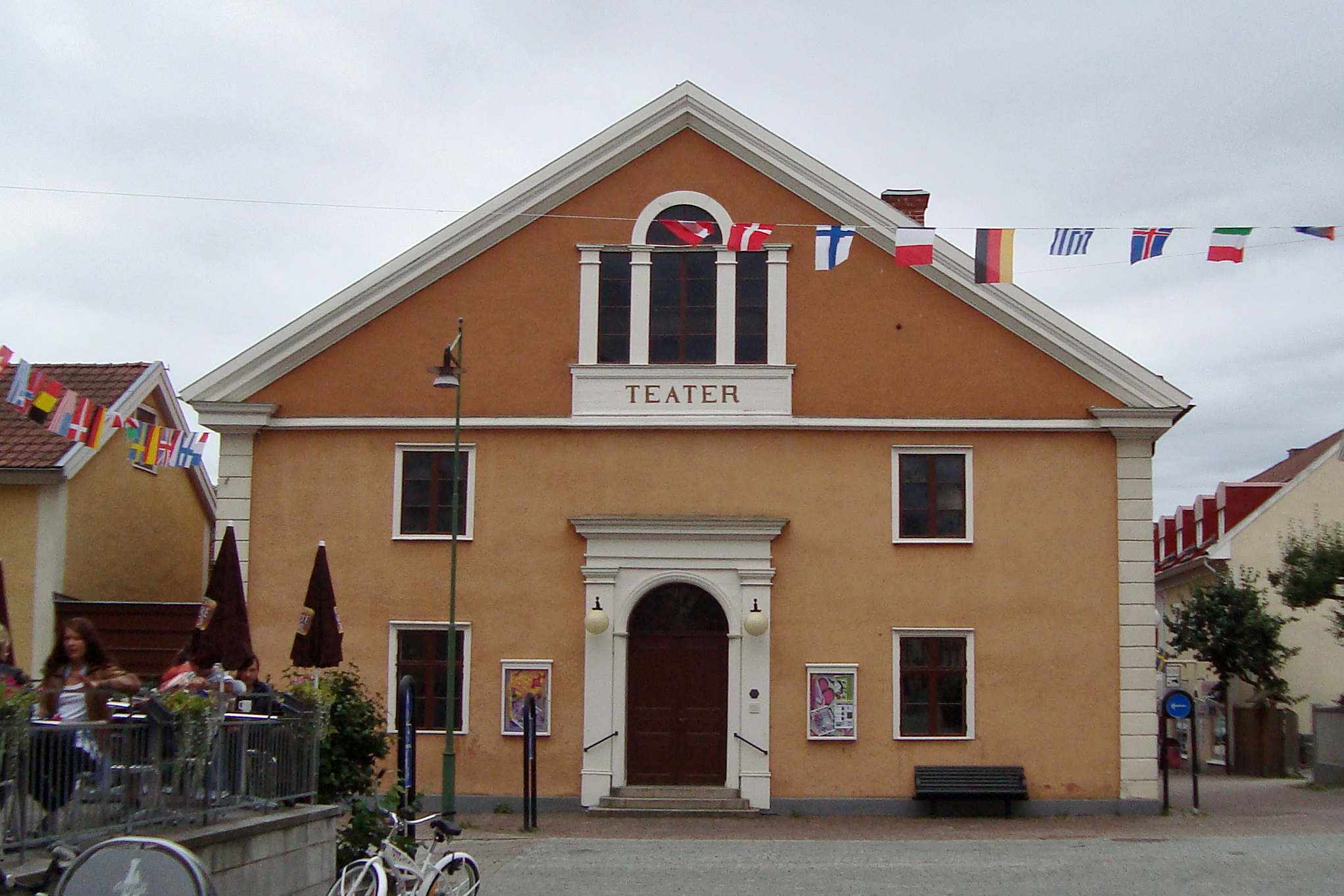 Mariestad theatre, Mariestad, Sweden